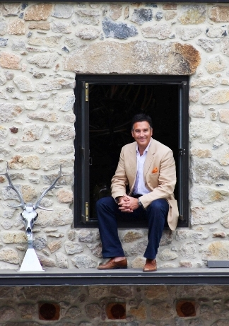 Michael Polenske, founder of Blackbird Vineyards and Ma(i)sonry, being photographed at Ma(i)sonry (Napa Valley, CA).